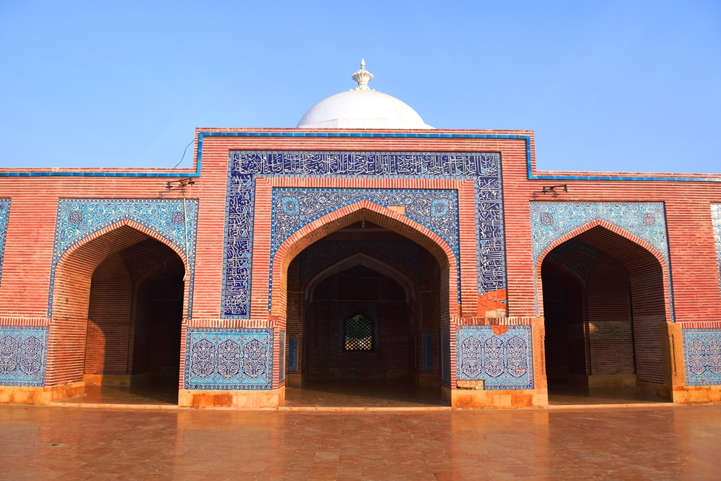 Shah Jahan Mosque, Thatta This is a photo of a monument in Pakistan identified as the SD-90